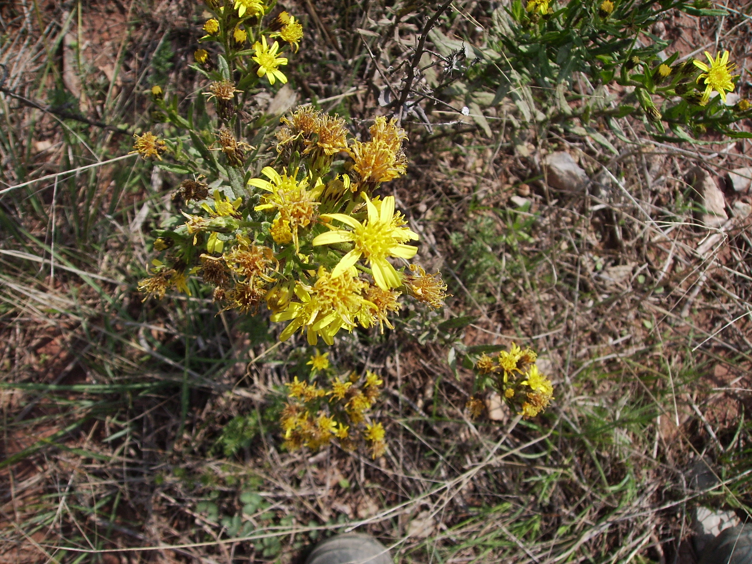 Image:Inula_viscosa_aprop.JPG My own work. September 2006 Castelltallat, Catalonia